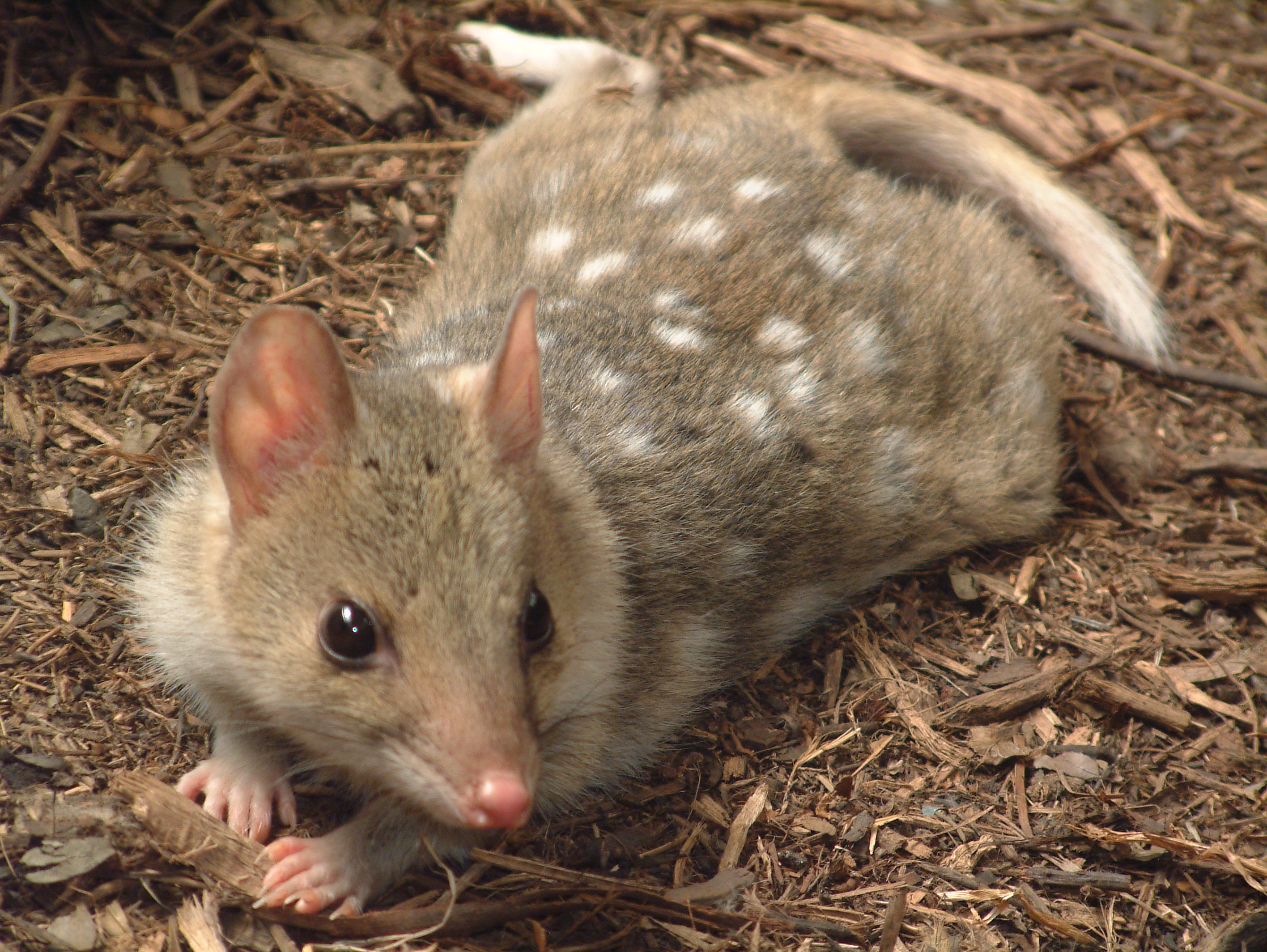 Eastern Quoll (Dasyurus viverrinus)